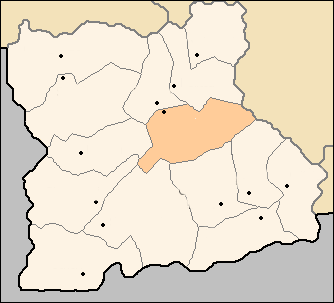 Map, Bansko Municipality Blagoevgrad Oblast, Bulgaria